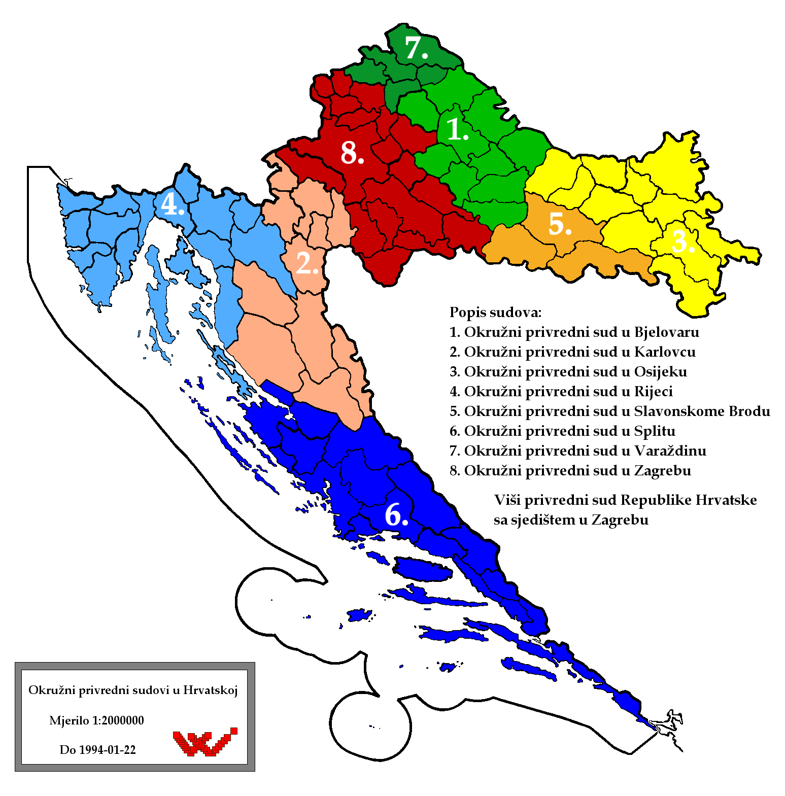 District Commercial Courts of the Republic of Croatia